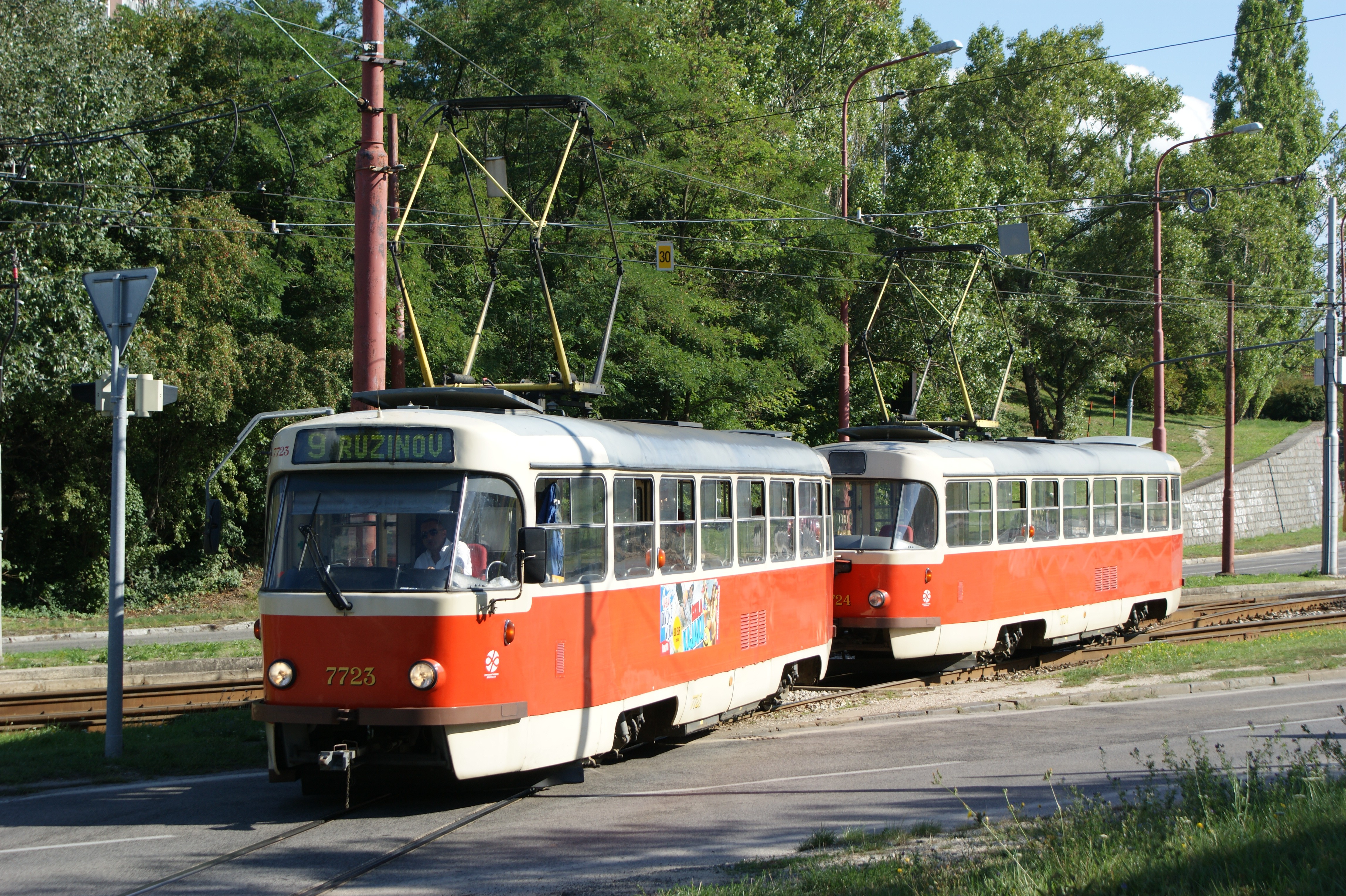 Tatra T3 tram cars 7723 and 7724 in Bratislava